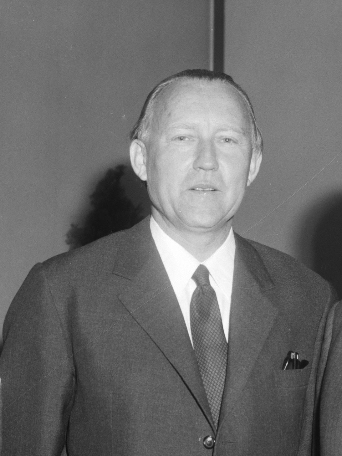 Hans von der Gröben, in Haarlem (the Netherlands), 1965